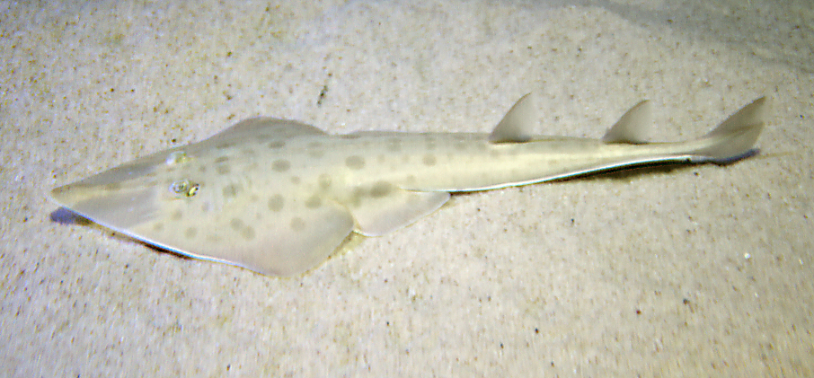 Rhinobatos annulatus Lesser guitarfish, Ushaka Sea world